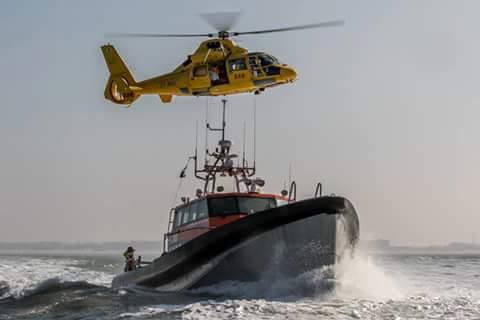 Kustwacht SAR-helikopter van NHV